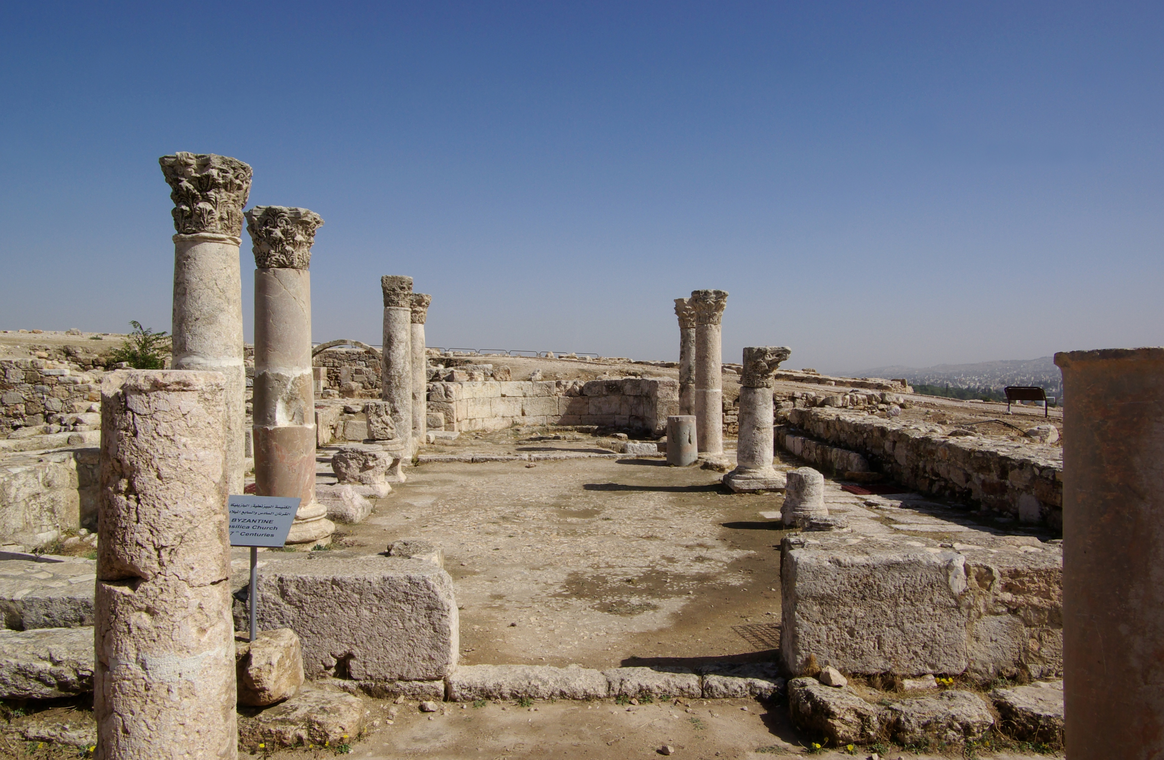 Jordan, Amman, Ruins of the byzantine church on the citadel